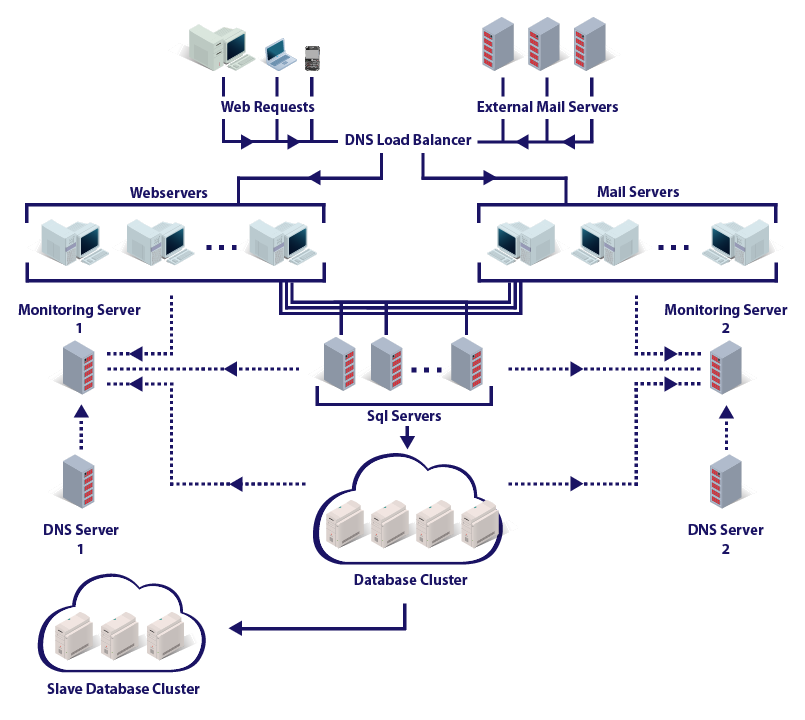 ProtonMail's system architecture overview (Dec 2014)